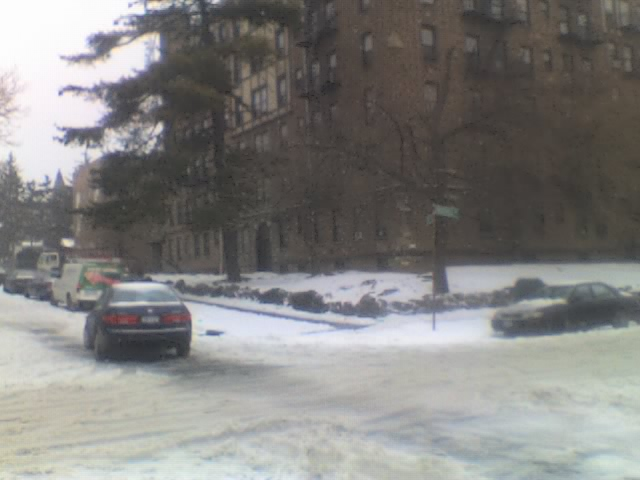 The corner of 191st Street showing a building located next to Woodhull Ave.